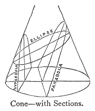 Illustration from 1908 Chambers's Twentieth Century Dictionary. Cone, n. a solid pointed figure with a circular base.